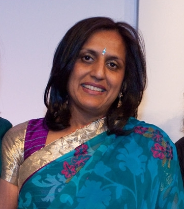 crop of Ritula Shah from image titled 'Winners with Mary Nightingale' at Asian Women of Achievement Awards